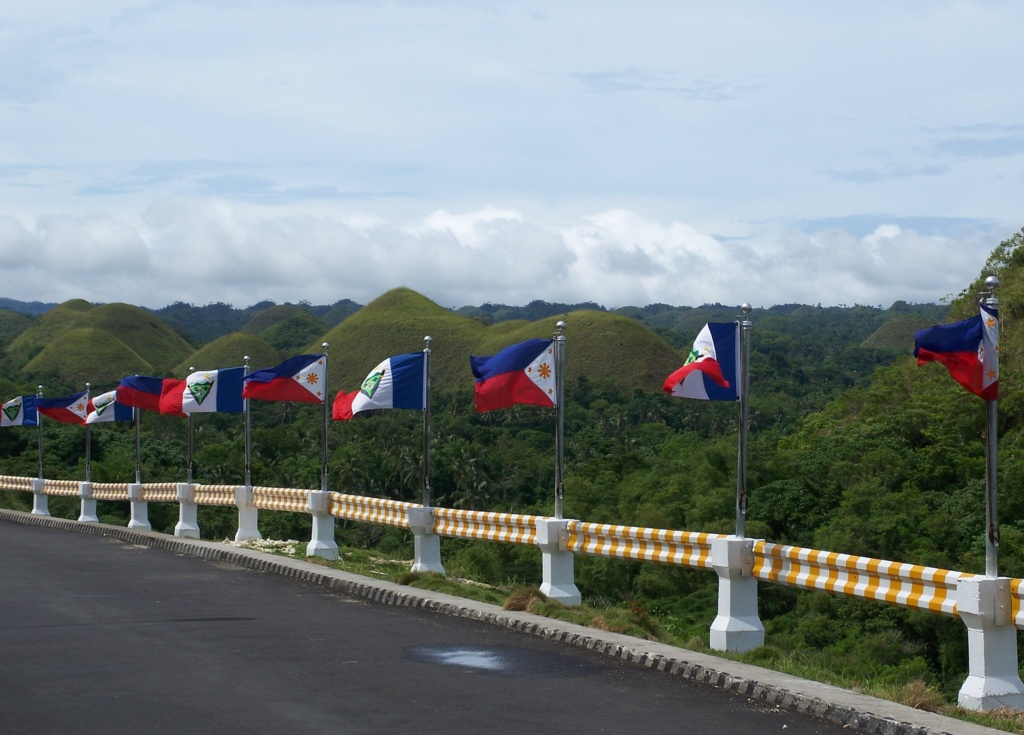 Chocolate hills near Carmen, Bohol